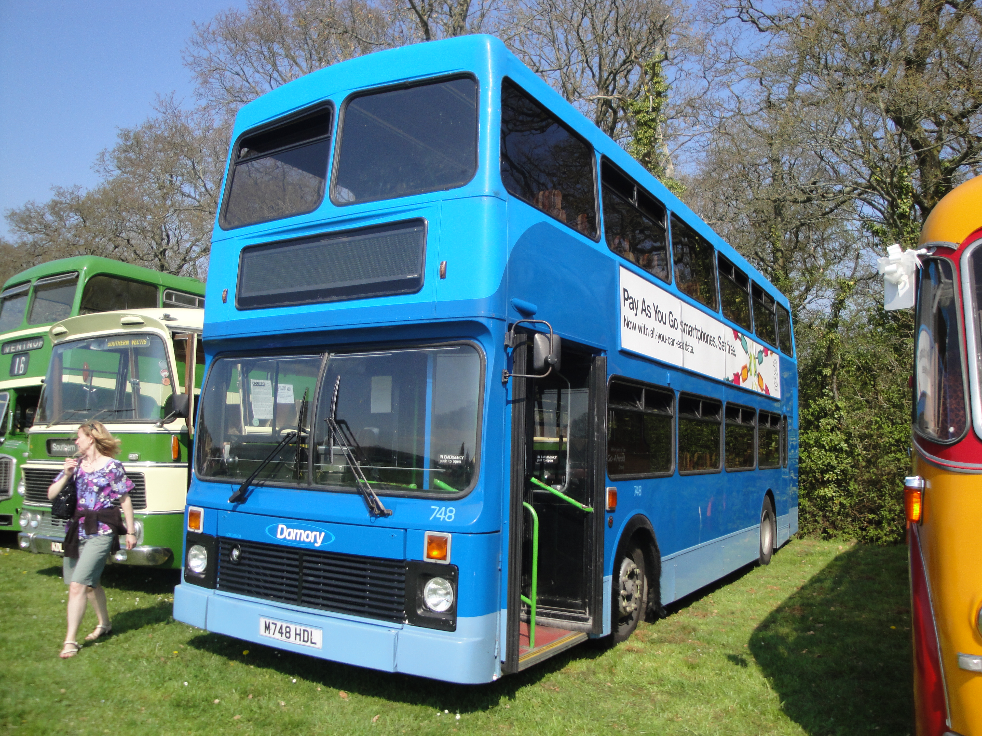 Damory Coaches 748 (M748 HDL), a Volvo Olympian/Northern Counties Palatine, seen at the Bustival 2011 event, held by bus company Southern Vectis at Havenstreet railway station, Isle of Wight. Ex-Southern Vectis 748, hence its attendance at the event.